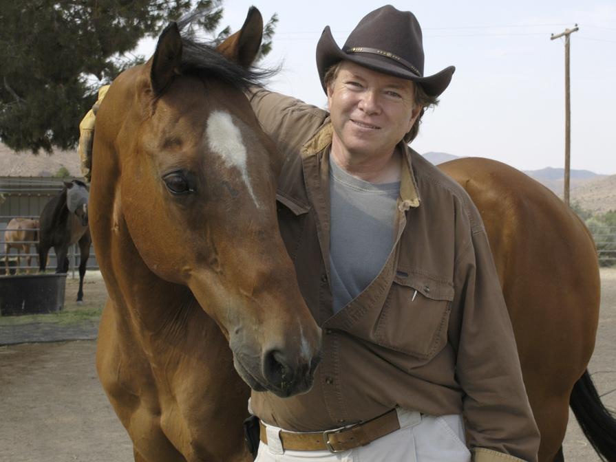 Willy is one of many horses Leo Grillo has rescued since establishing Horse Rescue of America.